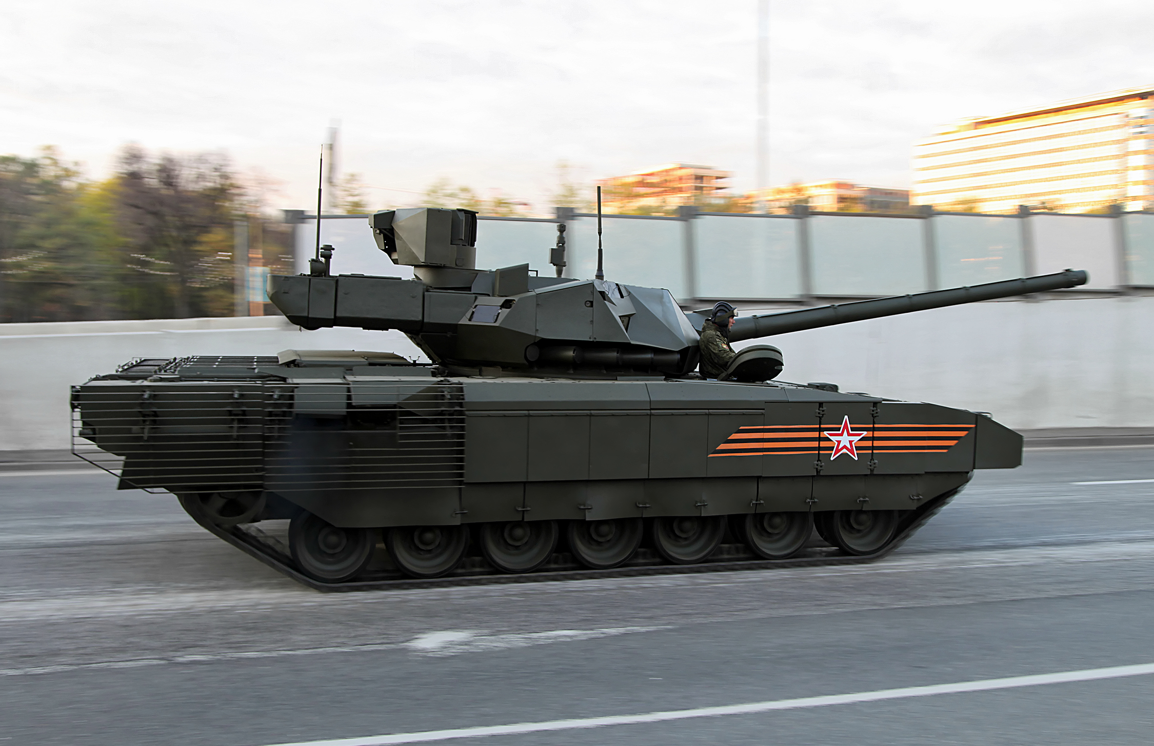 Main battle tank T-14 object 148 Armata